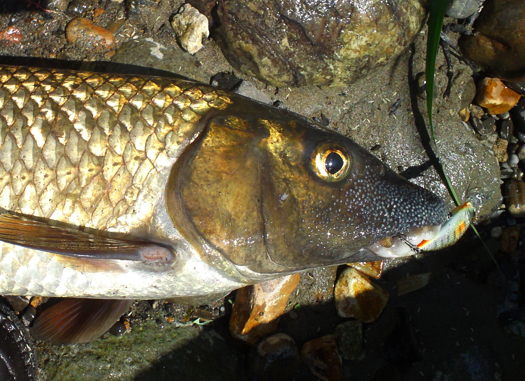 Barbel steed. Chikuma-gawa River. Nagano pref., Japan.